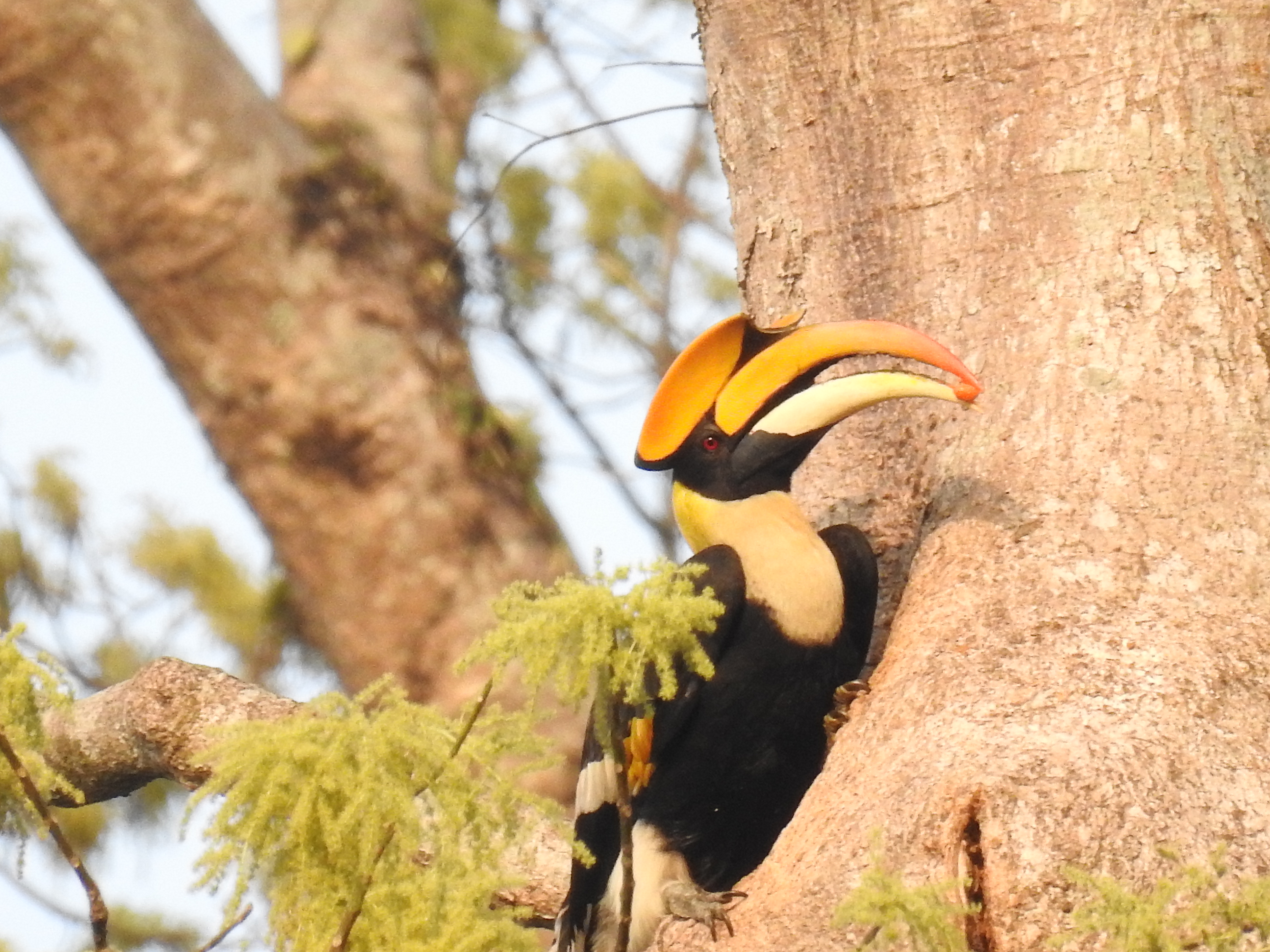 Great hornbill male on a feeding visit to the nest tree in Pakke Tiger Reserve